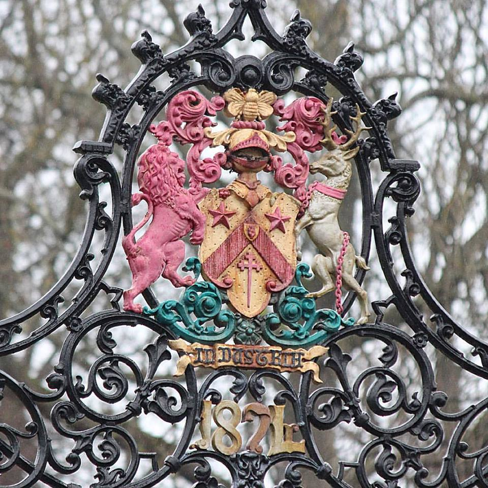 Fettes College Coat of Arms